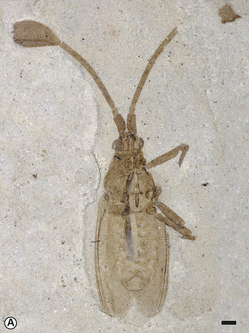 Fig 2. Different aspects on the morphology of Gyaclavator kohlsi gen. et sp. nov. A. Holotype. USNM 578190; photomicrograph of male in ventral view. Scale bars represent 0.5 mm.